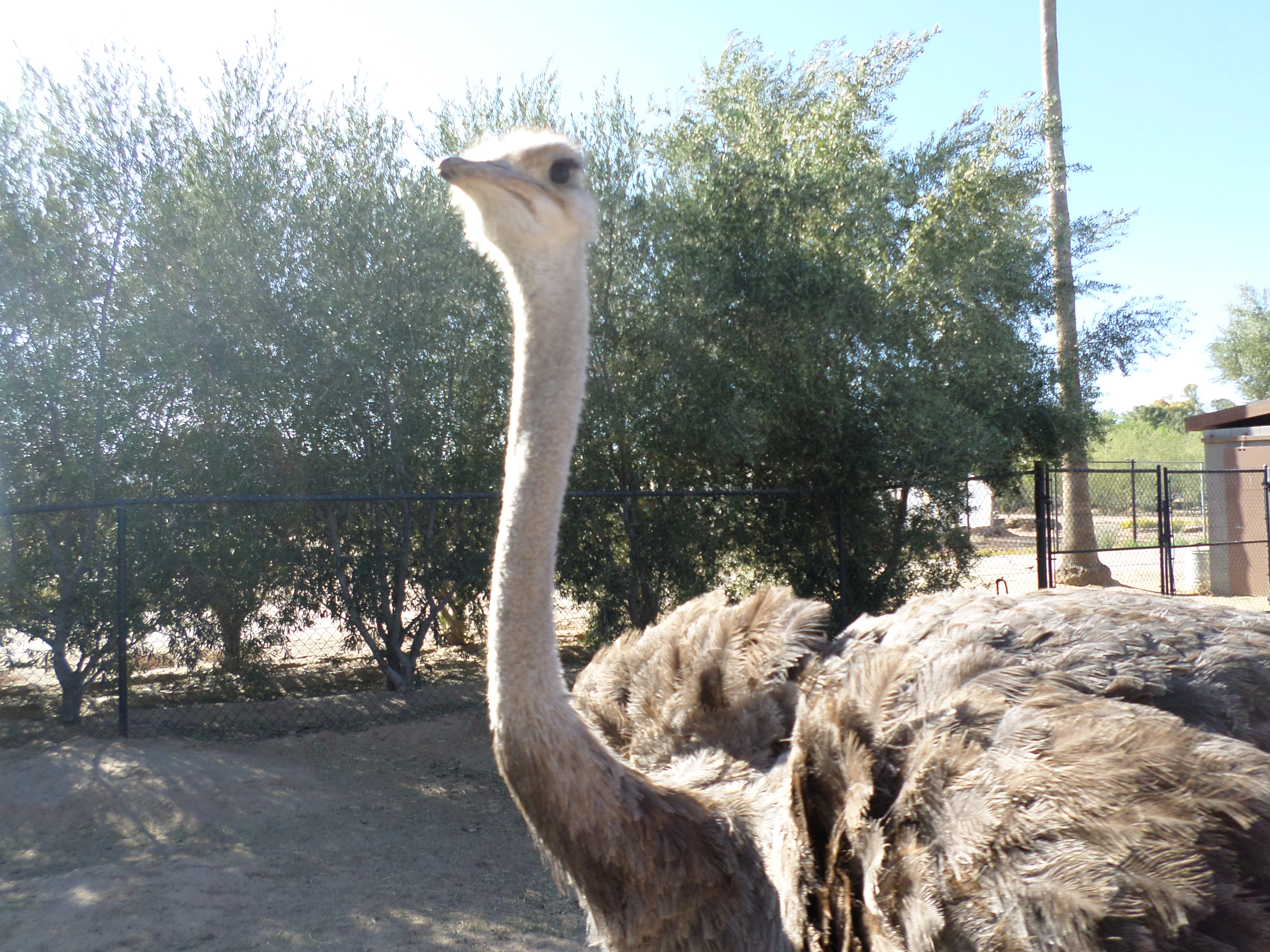 Ostrich - Wildlife World Zoo, Phoenix AZ.